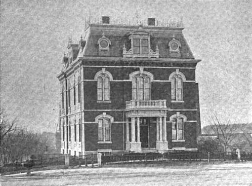 Memorial Hall library, Andover, Massachusetts.